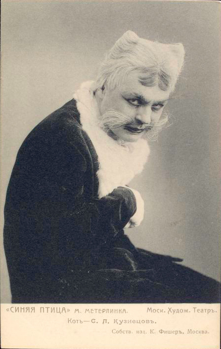 Ivan Moskvin at the Cat in Maurice Maeterlinck's The Blue Bird at the Moscow Art Theatre in 1908, directed by Konstantin Stanislavski.